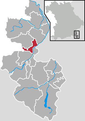 Locator maps of municipalities in Bavaria - District Berchtesgadener Land